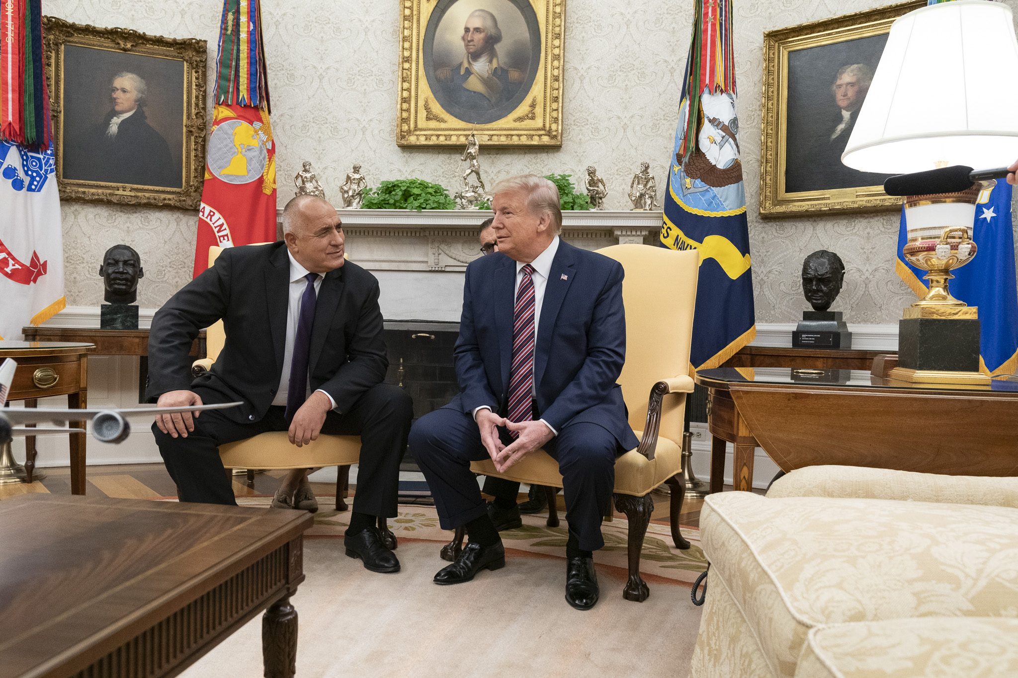 President Donald J. Trump meets with Bulgarian Prime Minister Boyko Borissov Monday, Nov. 25, 2019, in the Oval Office of the White House. (Official White House Photo by Shealah Craighead)